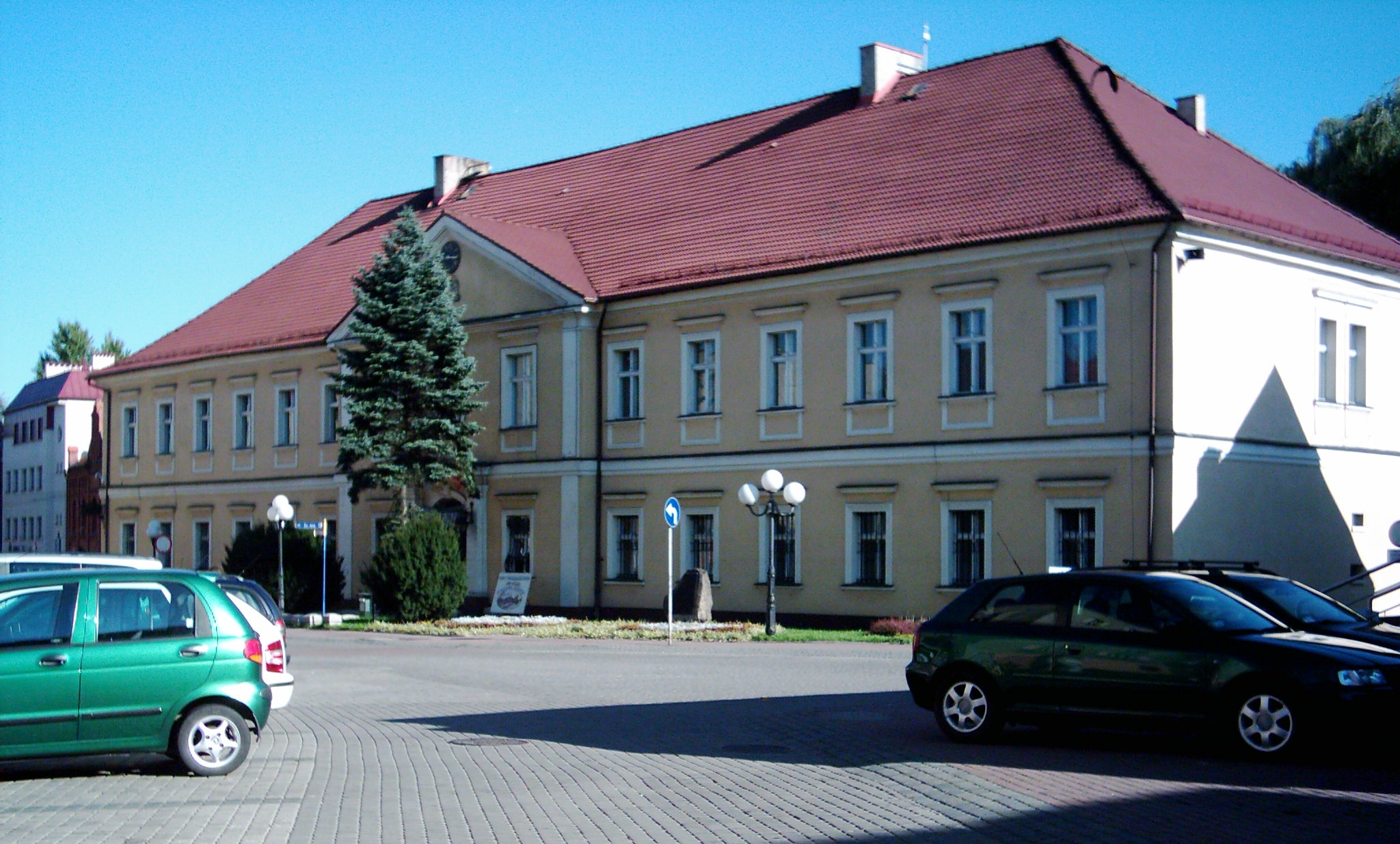 Castle in Wodzisław